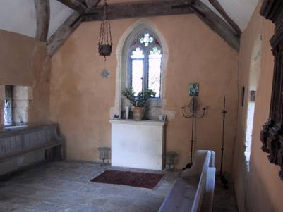 Interior of chapel at Sheldon Manor, near Chippenham, Wiltshire